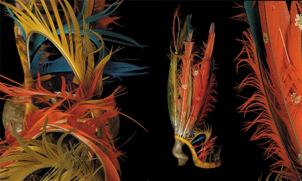 Icarean boot made of feathers; used in the bestselling Fairie-ality book series by David Ellwand